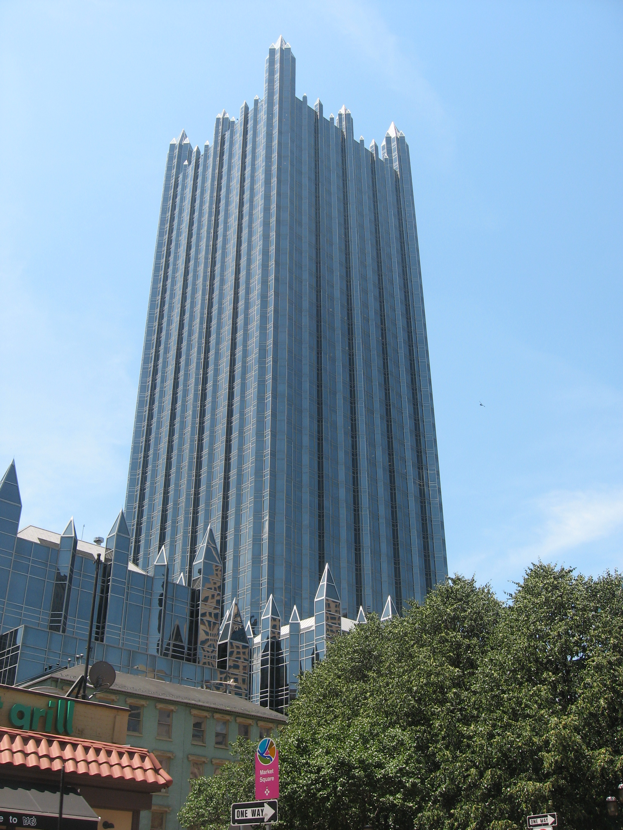 PPG Place in Pittsburgh 40°26′23.4″N 80°0′13.8″W / 40.439833°N 80.003833°W